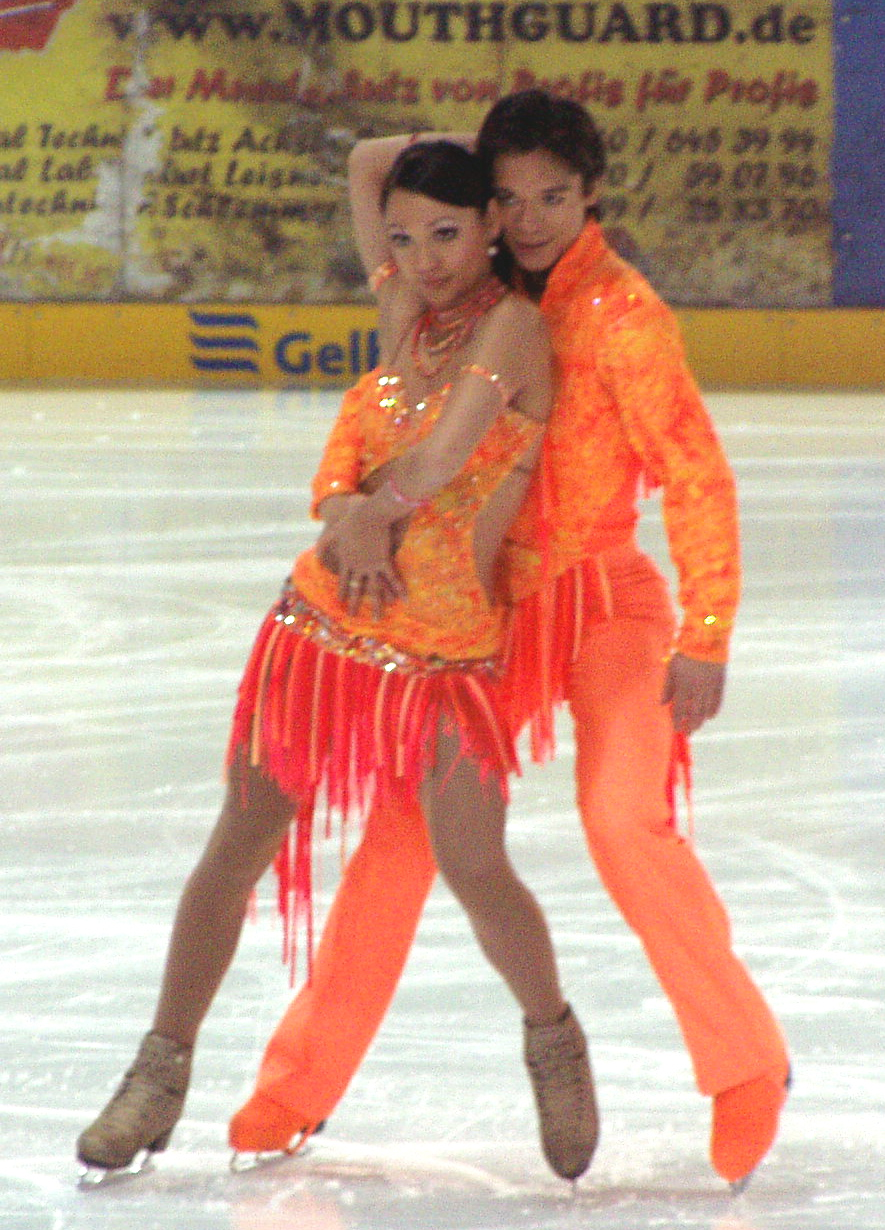 Christina and William Beier at the original dance at the German championships 2006 in Berlin